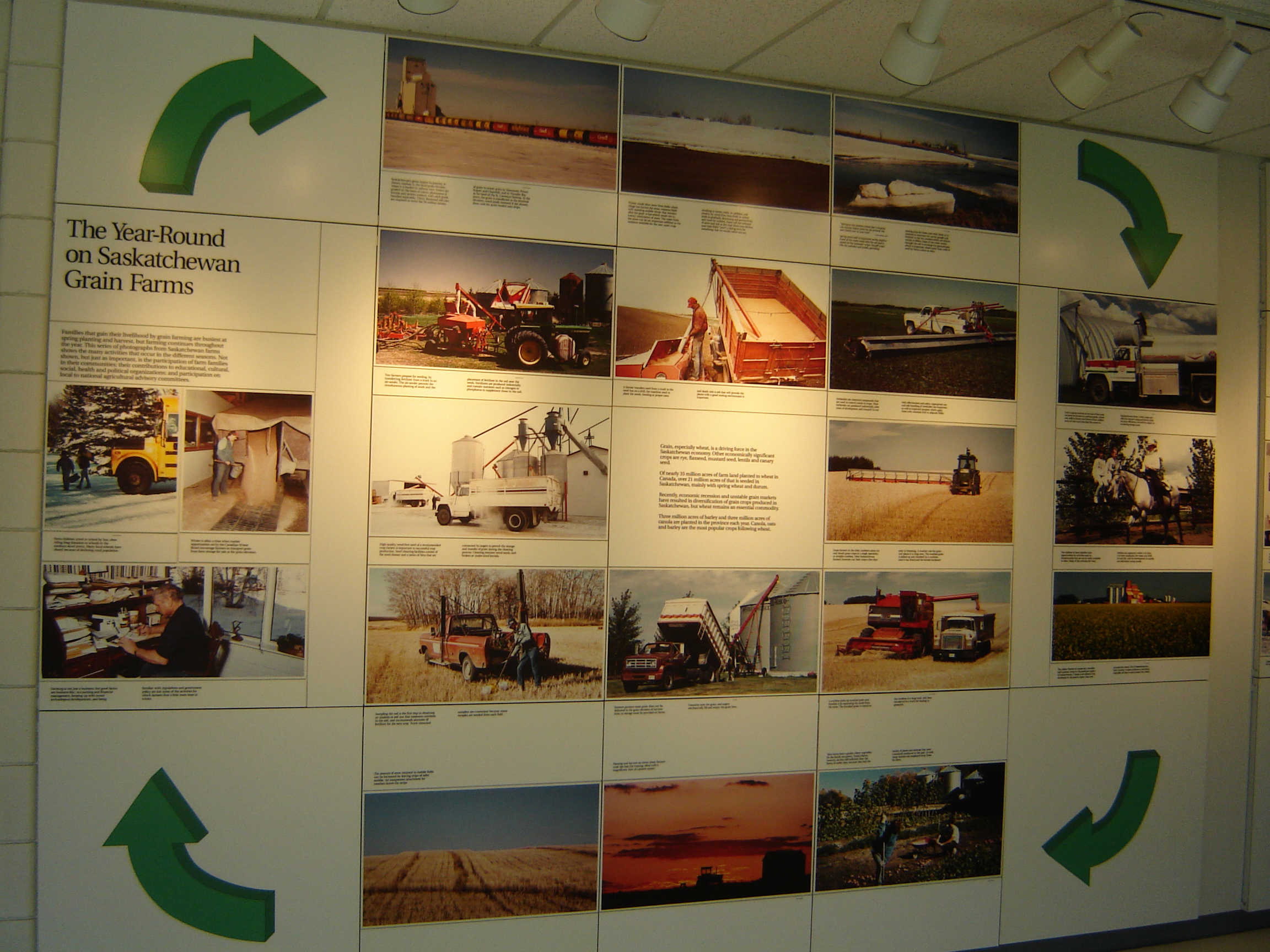 Agricultural Displays Wikipedia:University of Saskatchewan Agriculture & Bioresources College U of S Saskatoon Sasktchewan Canada